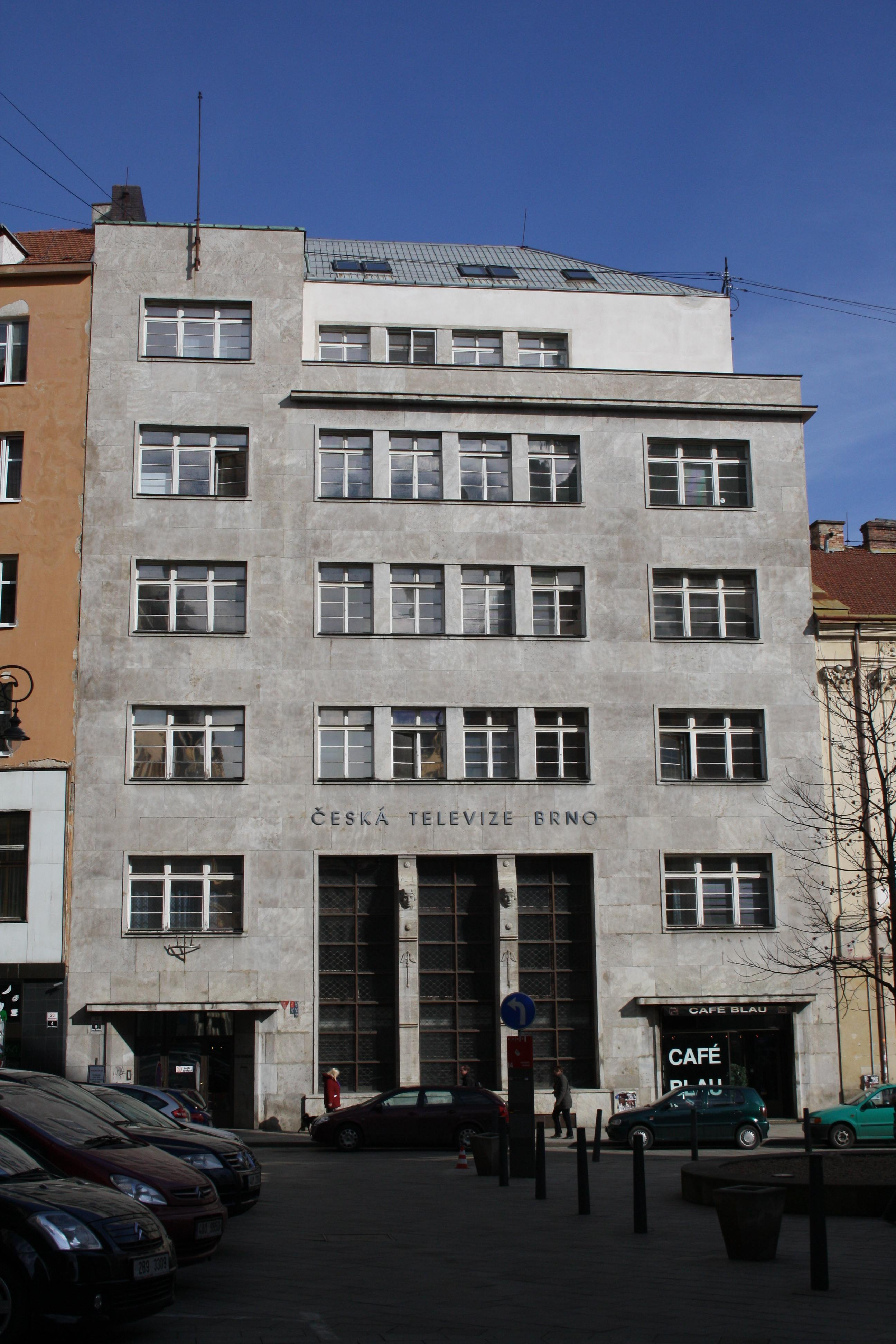 Building of Czech TV in Brno.